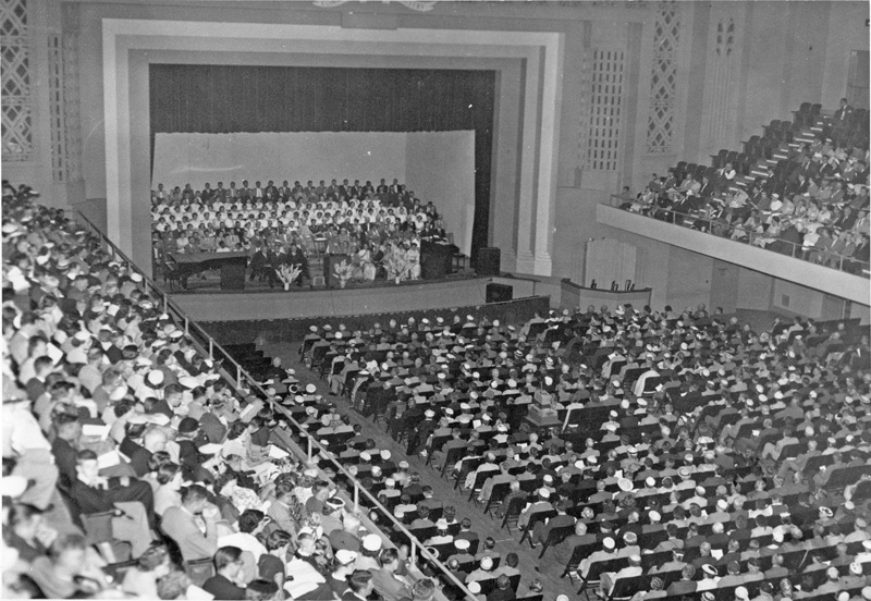 2014-1060m Description: Congregation of 3000 at Sunday afternoon rally in Civic Auditorium; General Conference sessions; used in Der Bote, October 31, 1956; Mennonite Publication Office cut no. 12323; one copy has a Better Films rubber stamp Date: 1956 Location: Winnipeg, Manitoba MLA filing: Conferences - GC - 1956 Original Size: 17 x 11.5 cm Source: Photographer: William Zehr?